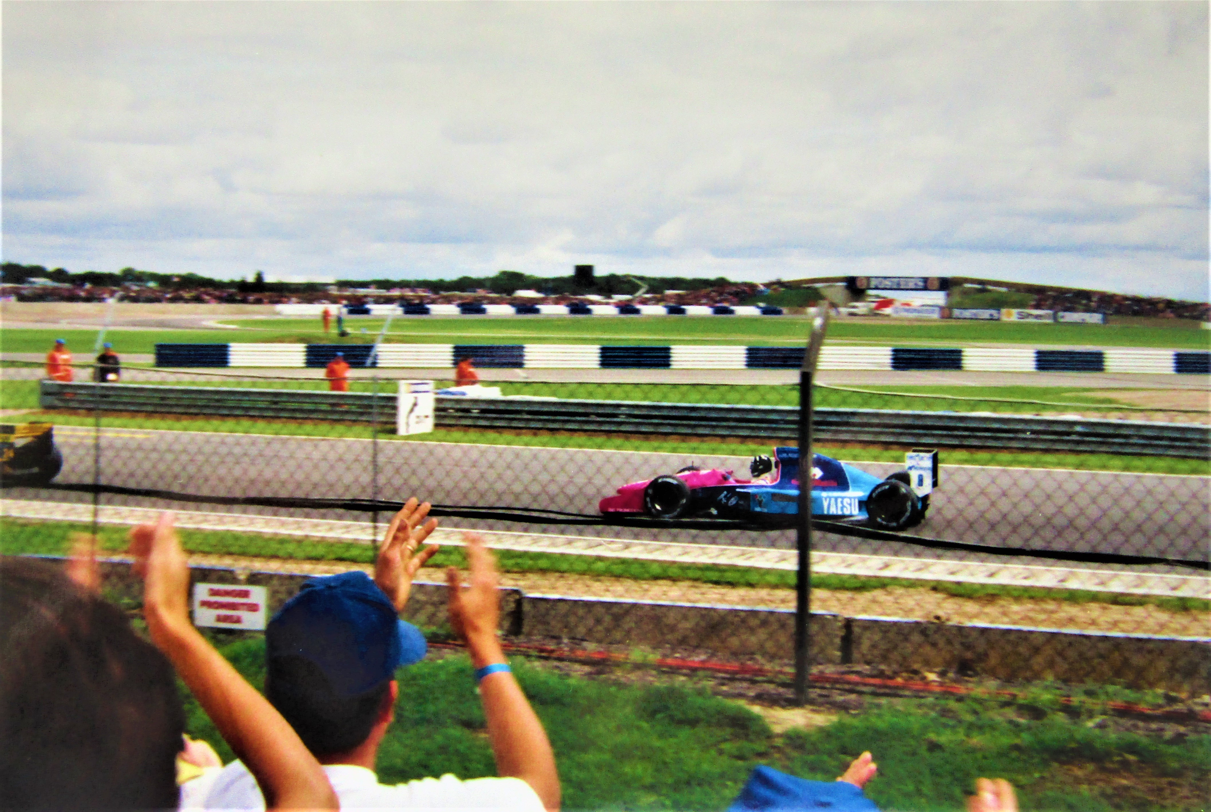 The Brabham BT60B driven by Damon Hill seen here at Woodcote during the 1992 British Grand Prix, Silverstone, England.